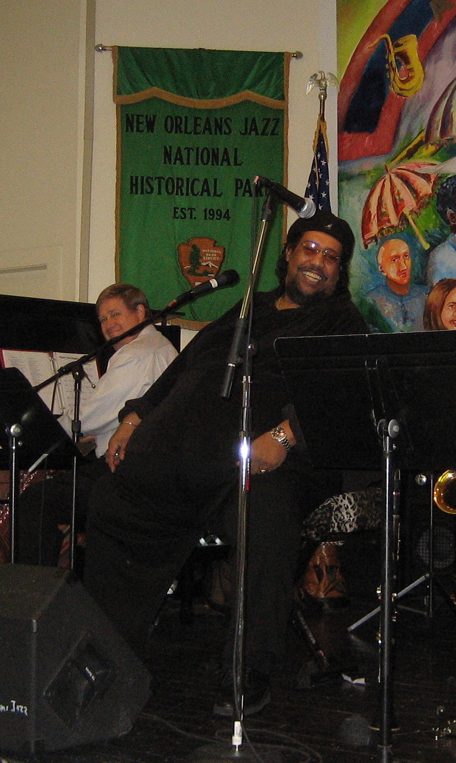 New Orleans: Concert at Jazz Park in the French Quarter. Big Al Carson, with Lars Edegran on piano at left.